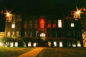 A photograph of Concordia University College, Edmonton, Canada. Taken by Ken Eckert, 1987.